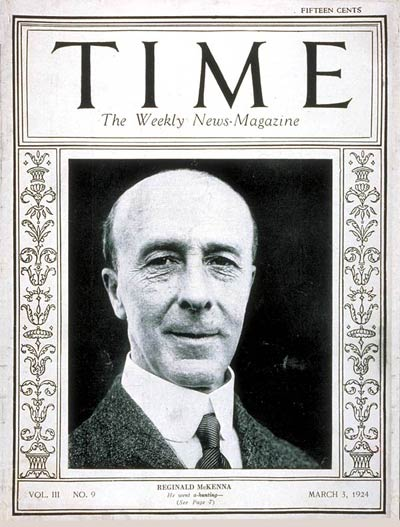 TIME Magazine Cover Featuring Reginald McKenna (3 Mar 1924)